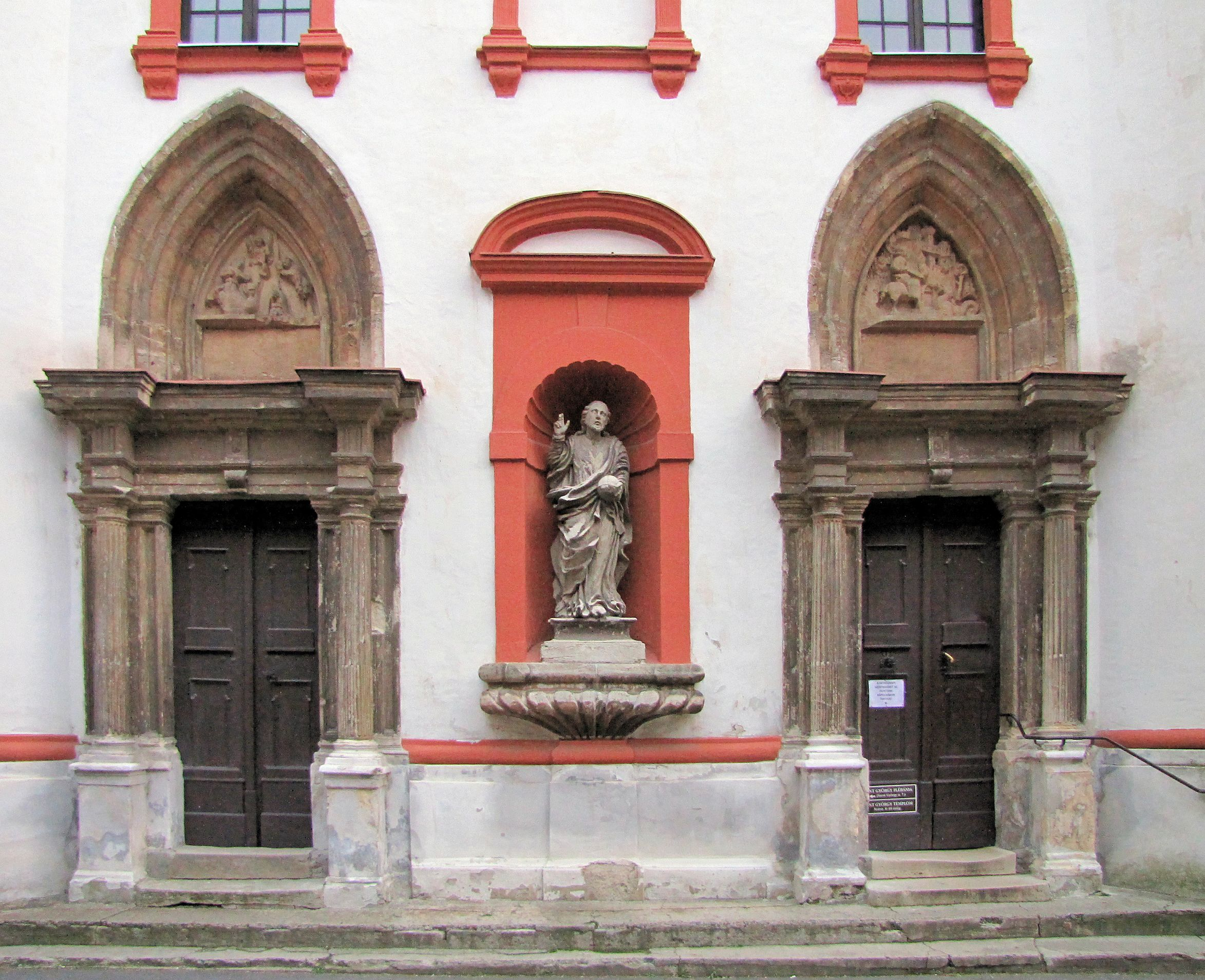 Sopron, gates of the Church of St George.